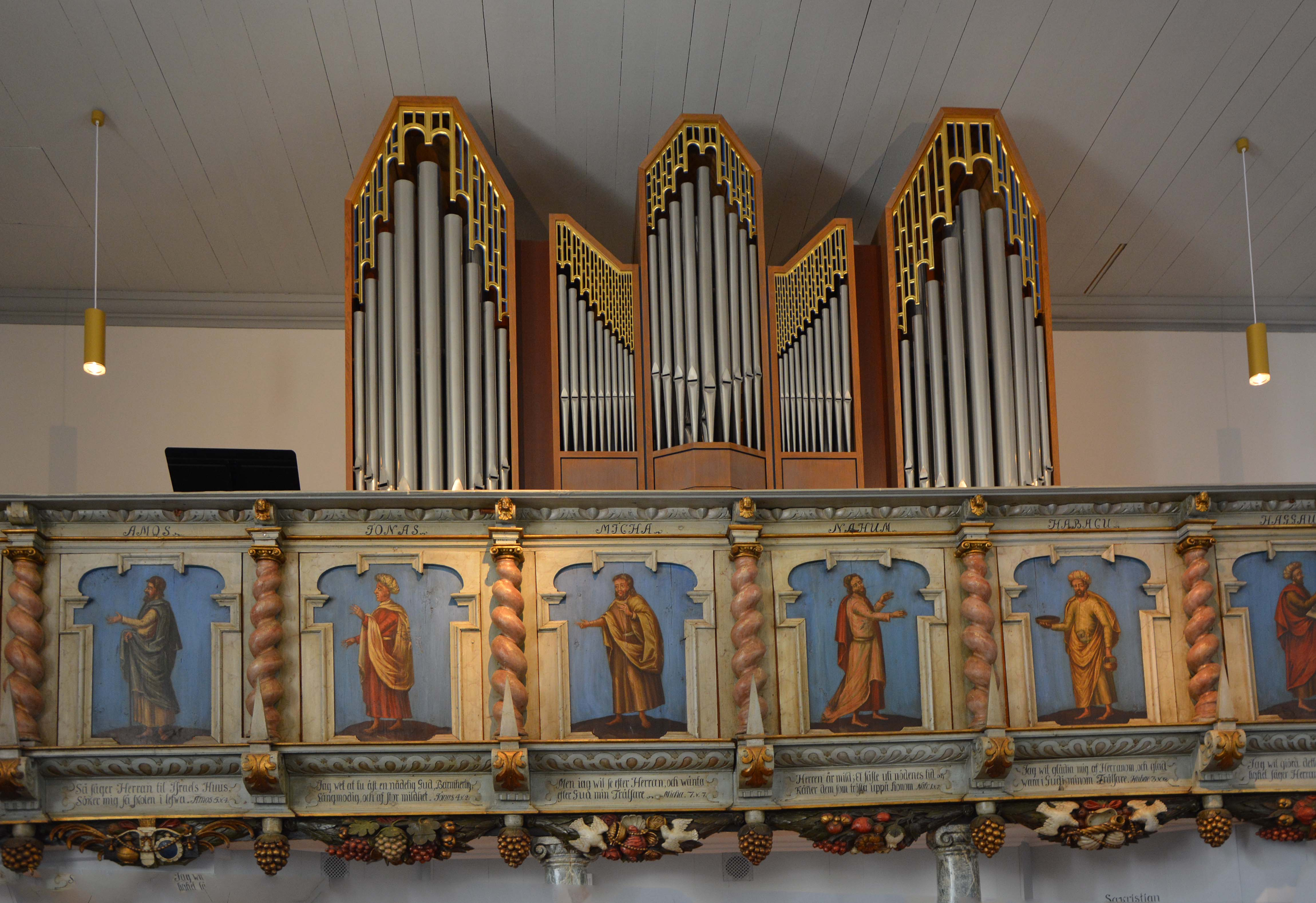 Nättraby Church.The organ